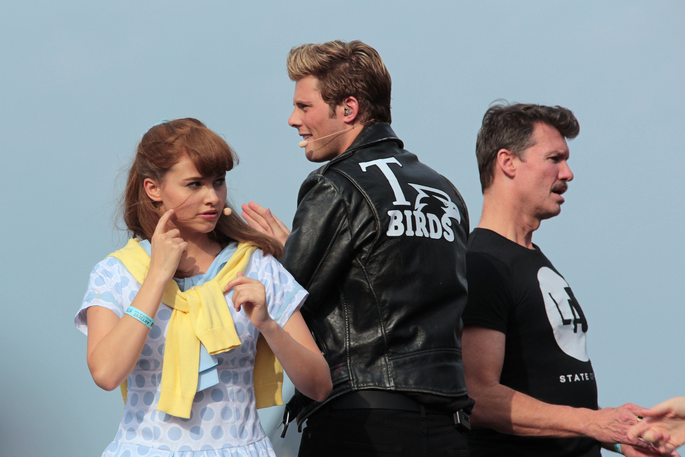 Vajèn van den Bosch and Tim Douwsma as Grease's Sandy and Danny during the rehearsals for the musical singalong at the Uitmarkt 2015 in Amsterdam.